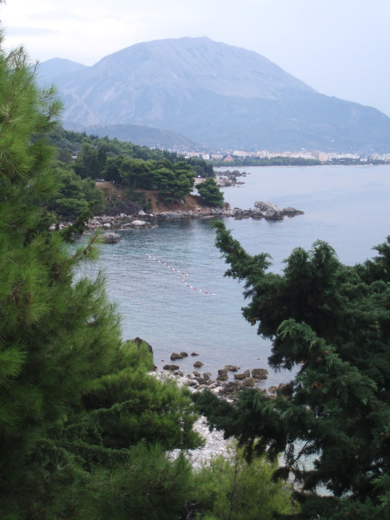 Crvanj, near Bar.